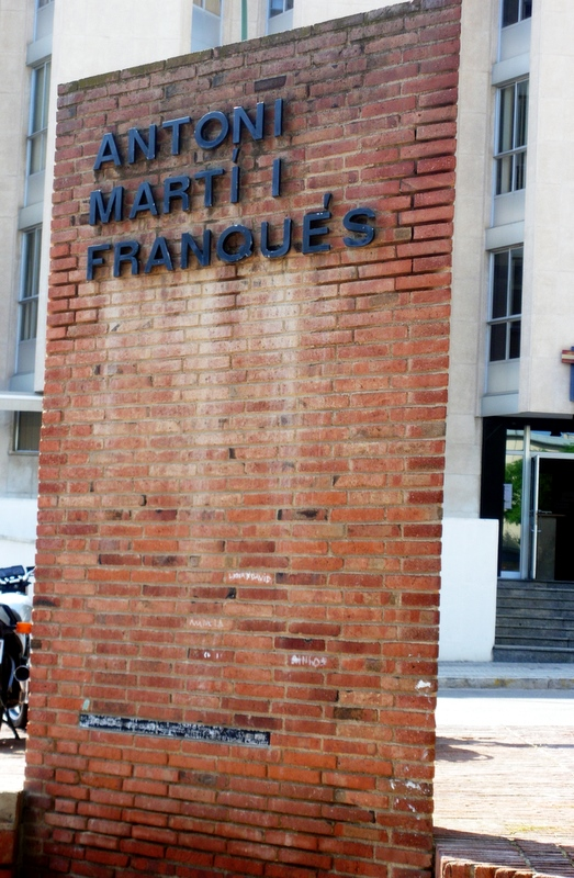 Antoni de Martí i Franquès Monument in Tarragona, in the square called Orleans, which is next to the institute that also bears the same name.